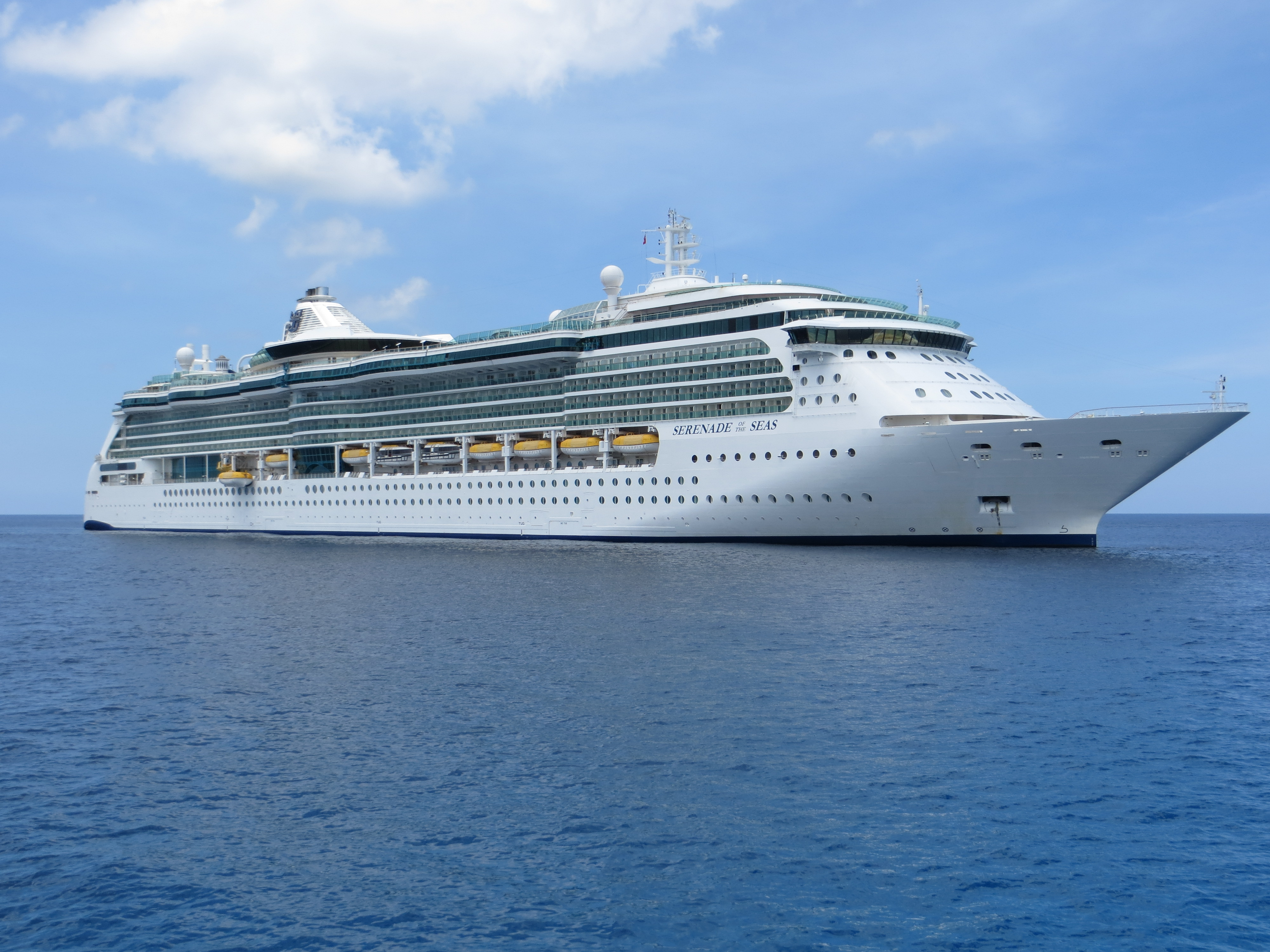 MS Serenade of the Seas anchored off of Georgetown, Grand Cayman